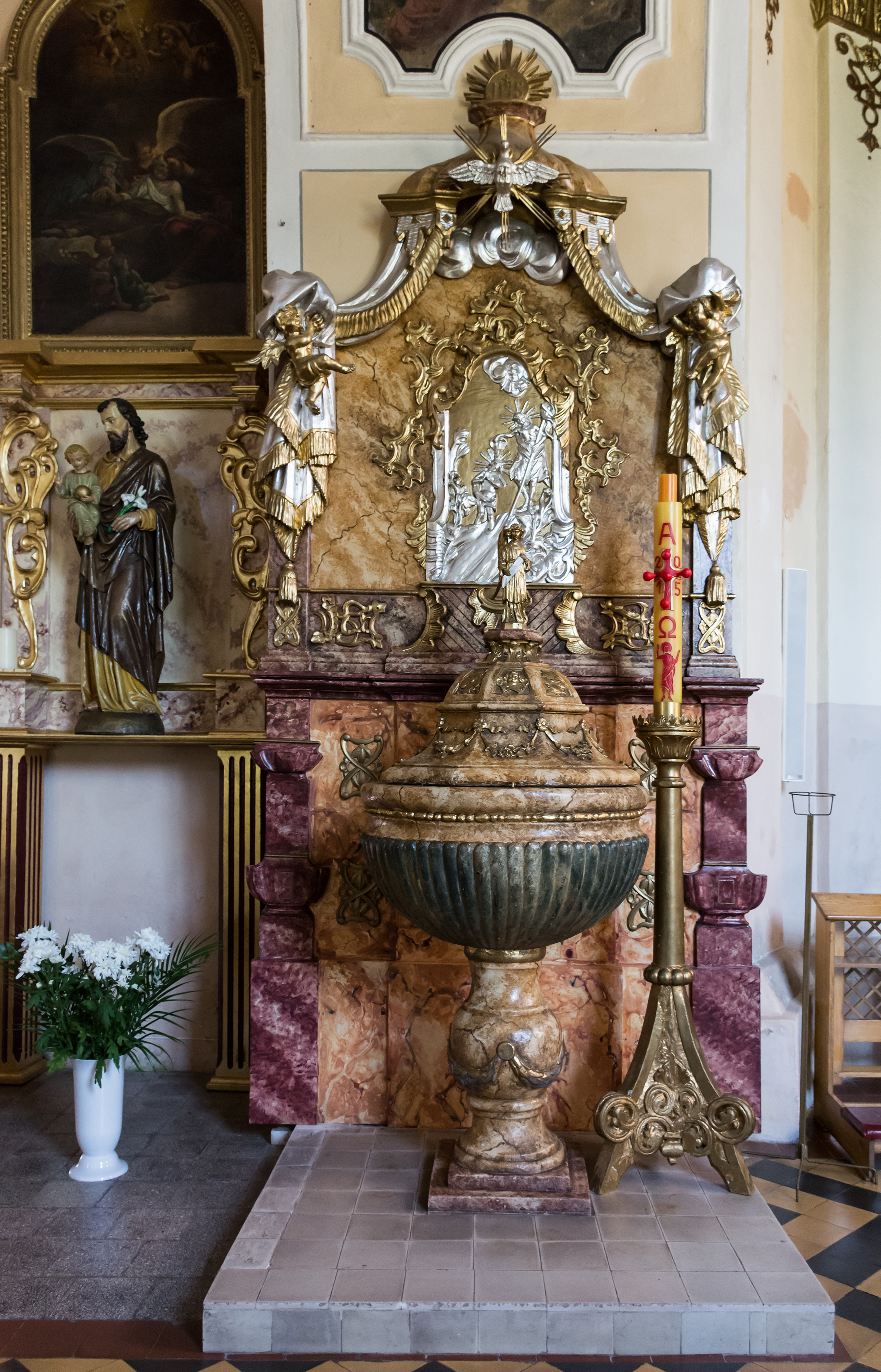 Saint Mary Magdalene Church in Ścinawka Średnia